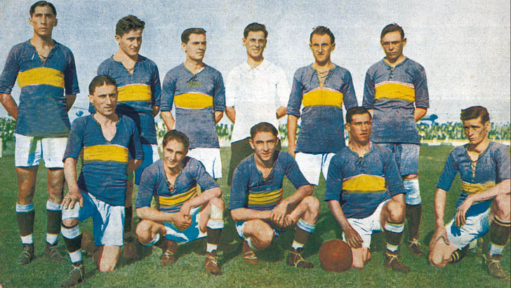 Boca Juniors, 1920 amateur champion of Argentina. (stand): Ortega, Cortella, José Alfredo López, Tesoriere, Becaas, Busso. (seated): Calomino, Bozzo, Alfredo Martín, Galíndez, Marcelino Martínez.